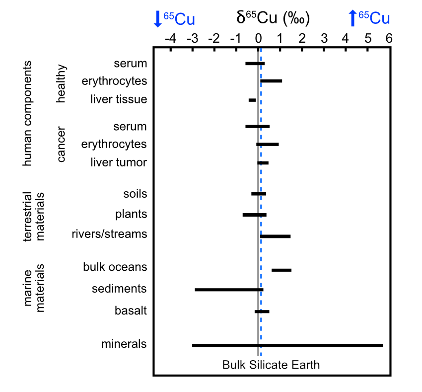 Natural variations in Cu isotopic composition of plants, human blood/liver, bulk oceans, rivers/streams, and chalcopyrite.